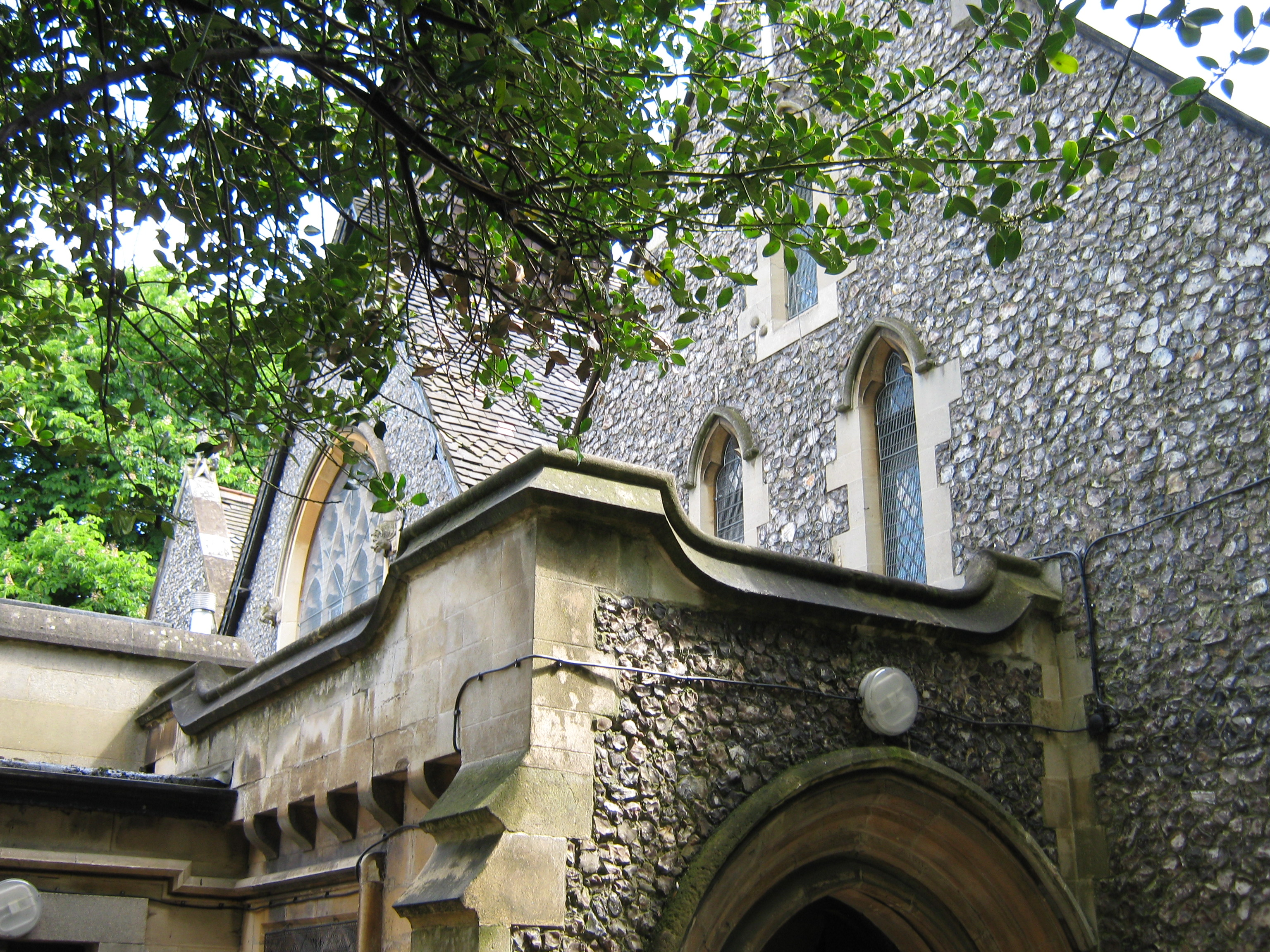 Church of St. John, Sudbury, London,Western Aspect